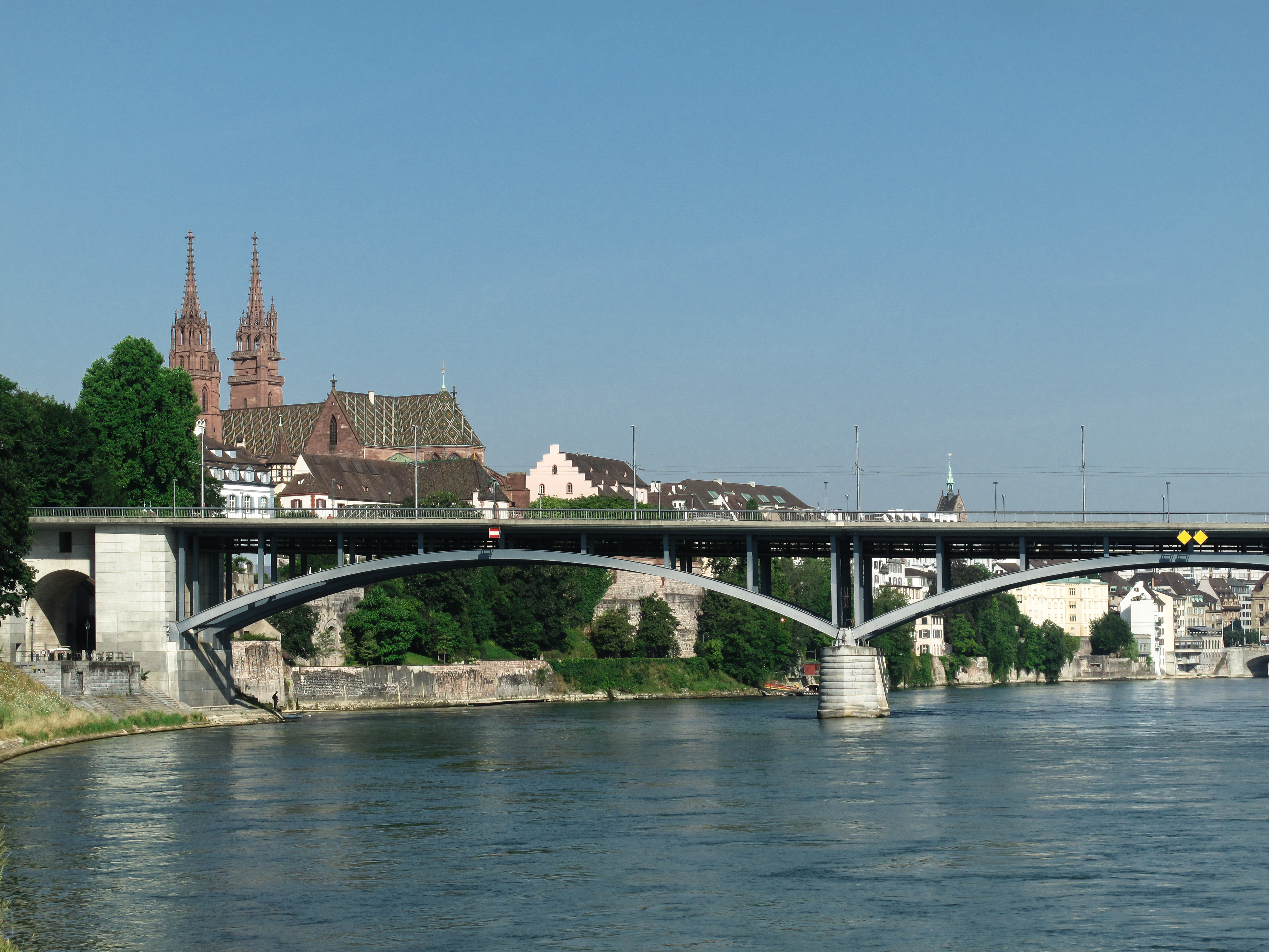 Basel, bridhe (Wettsteinbrücke) with cathedral in background